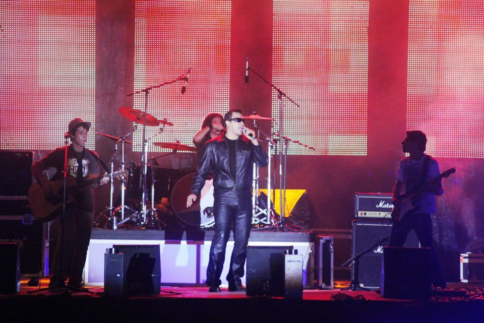 at battle of tha bands final